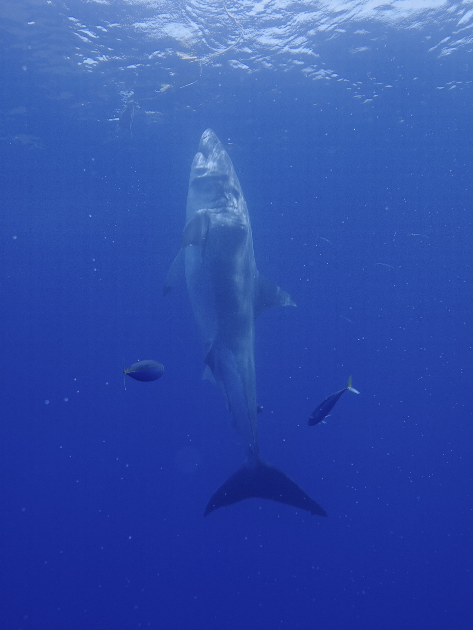 Great White Shark